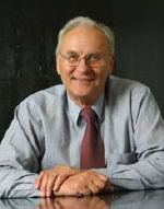 Birziskis